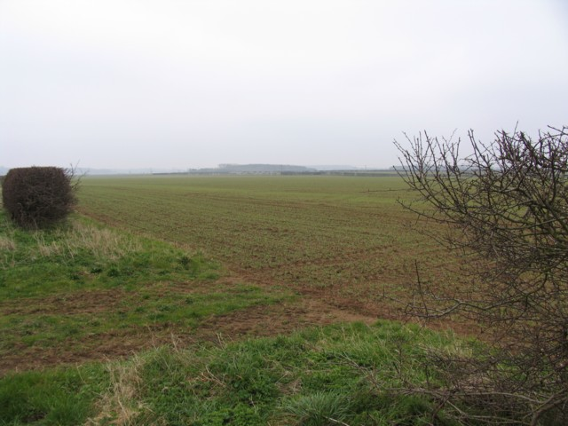 Fields off Navenby Lane